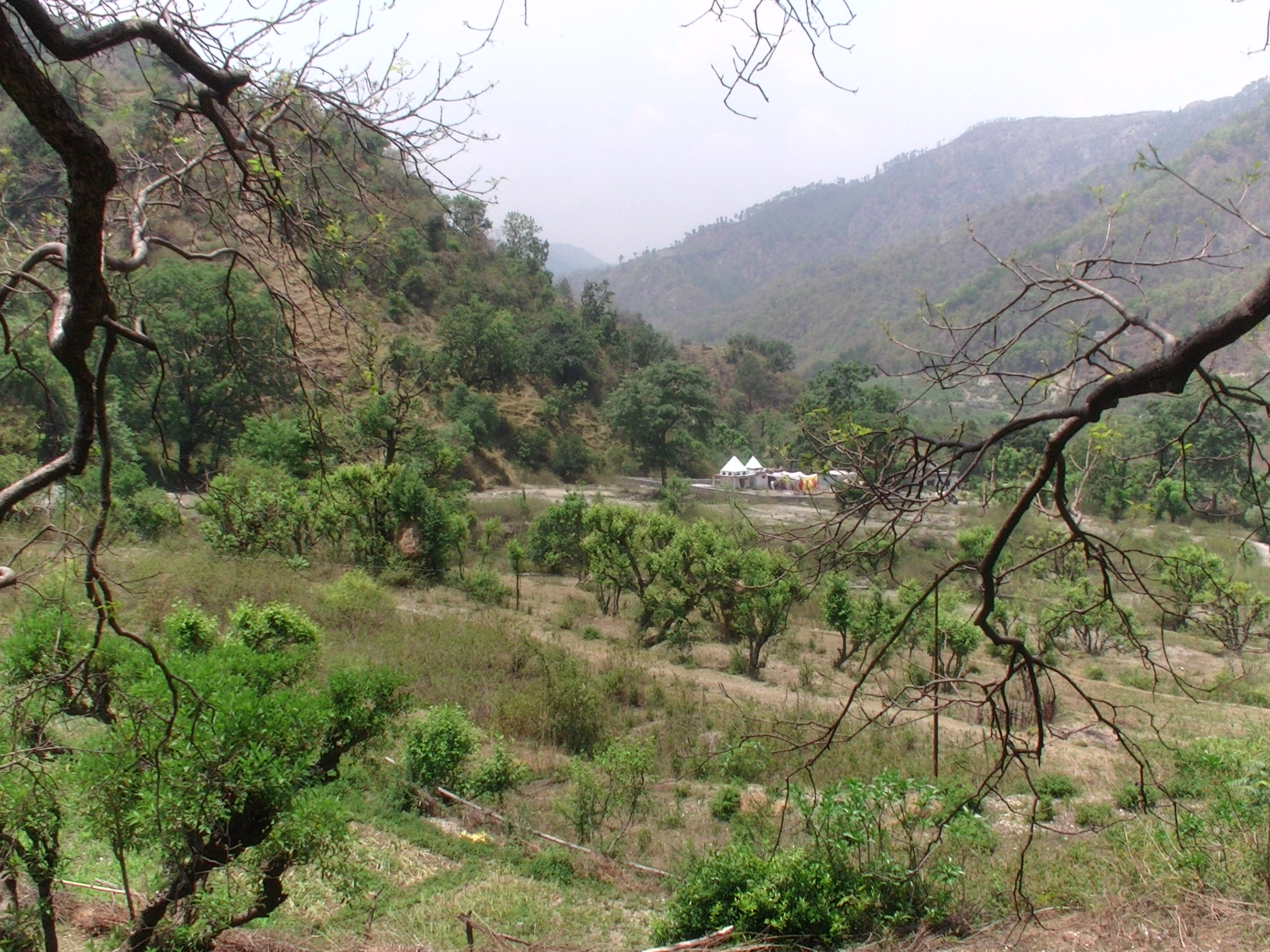 Temple built by Kalas of Badolgaon